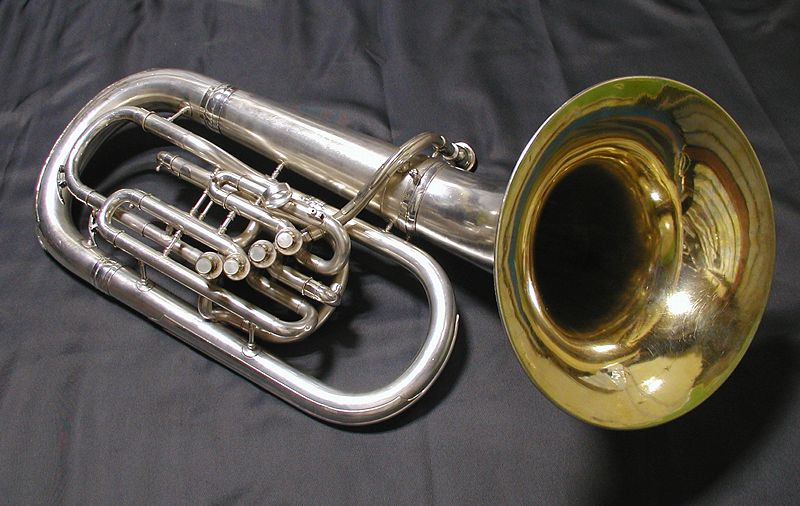 Baritone Horn CONN CONNSTELLATION